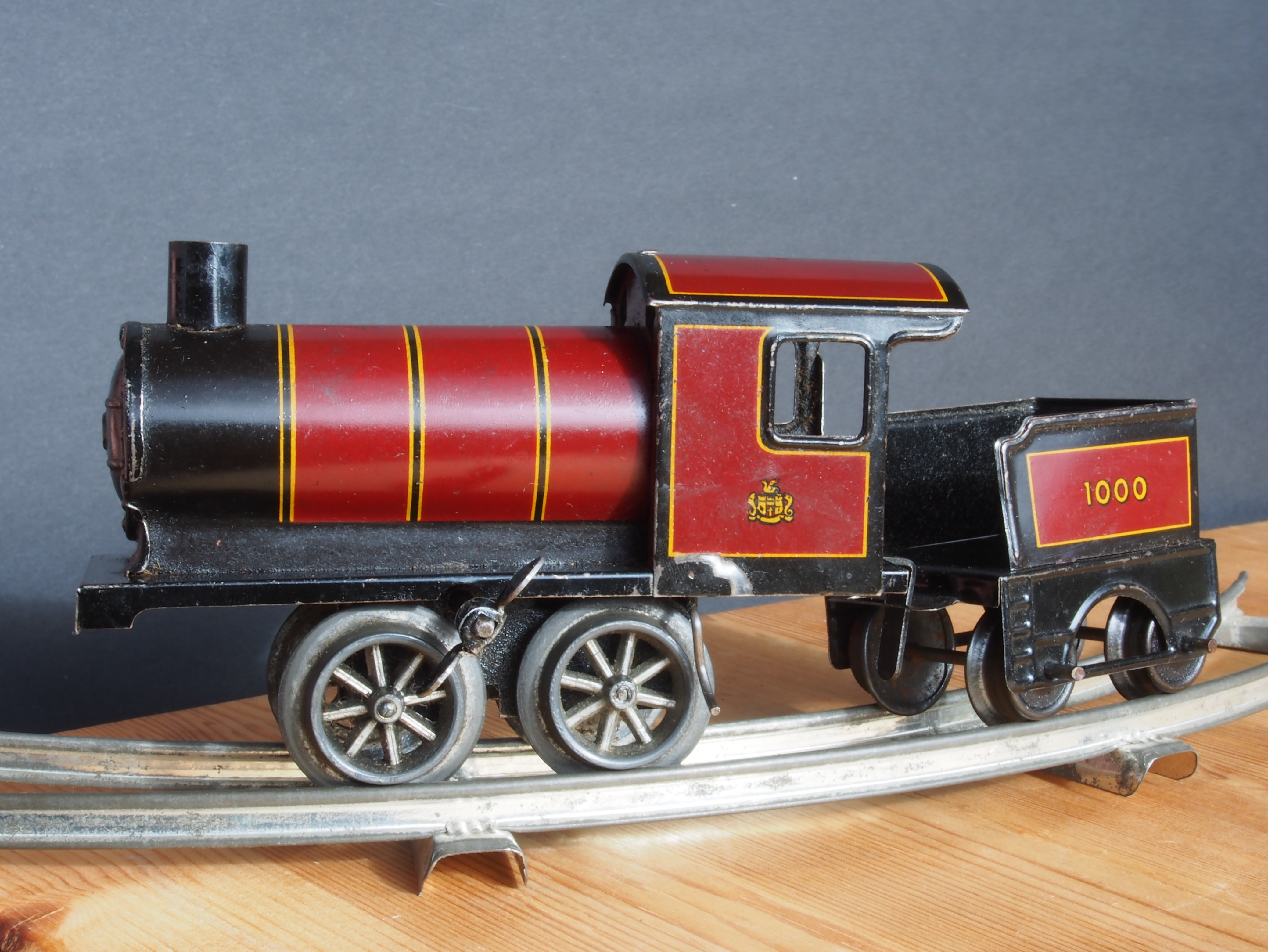 Made in Germany Tin clockwork toy train from around 1900.